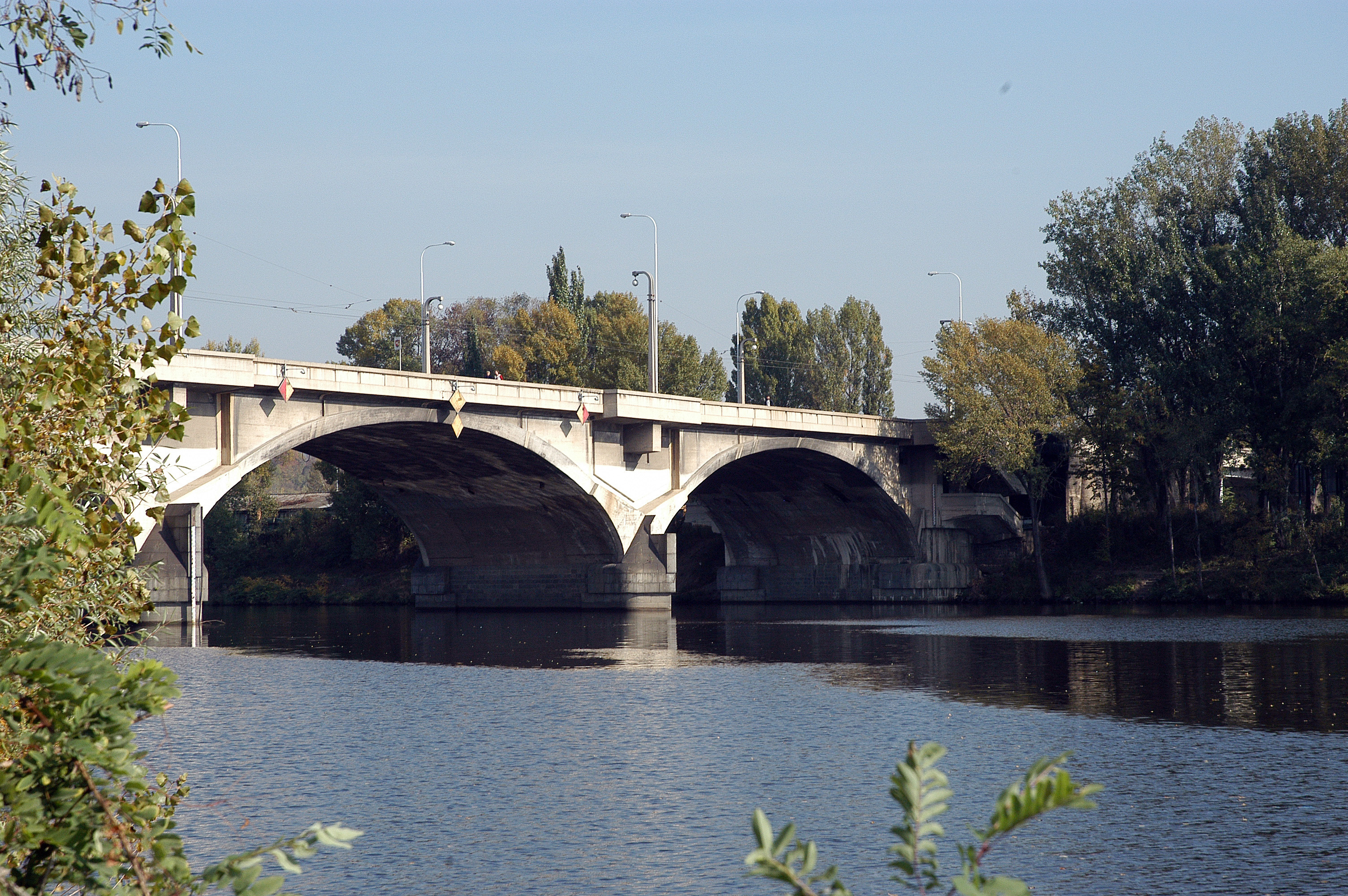 Libeň Bridge (Libeňský most) over the Vltava River in Prague, Czech Republic. Autor: Petr Vilgus=User:Slimejs Licensing Self_GFDL_and_cc-by-sa-2.5